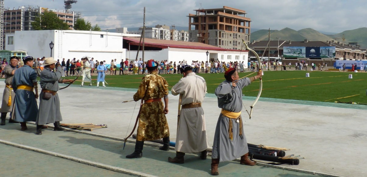 Mongolian bow and arrow championship mens round during the Naadam.